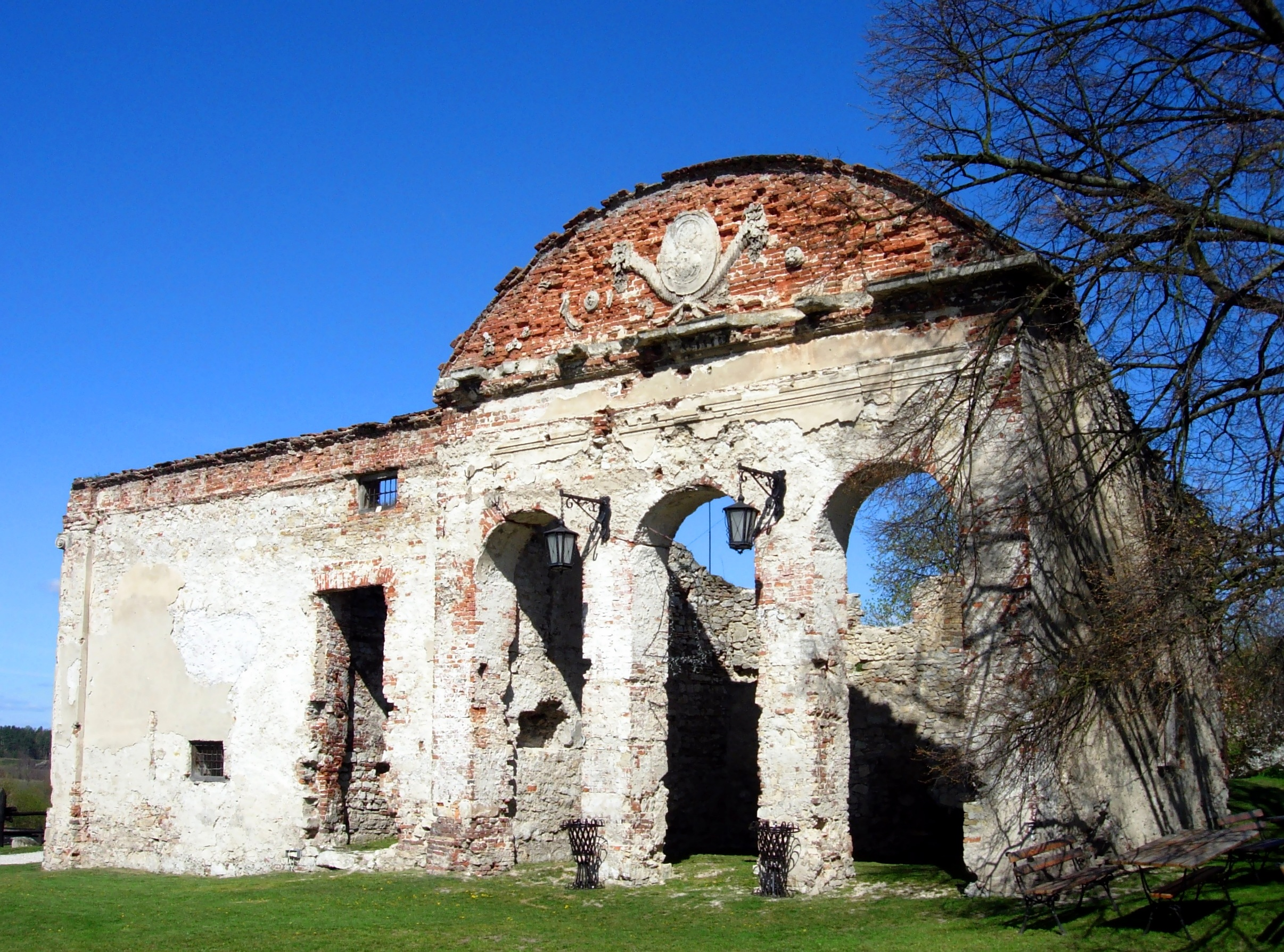 The ruins of the palace in Sobków, Poland